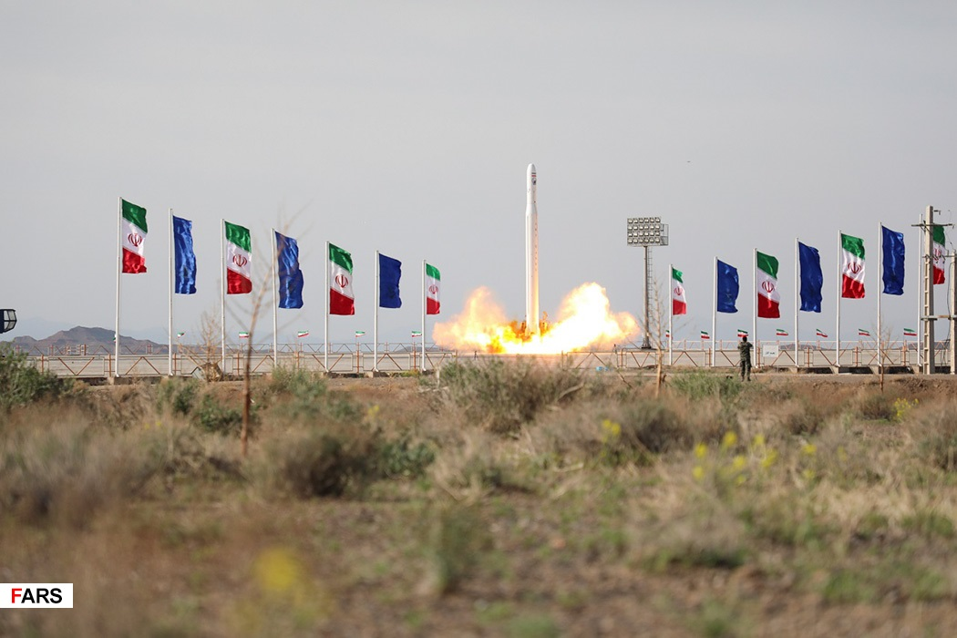 First launch of the Qased SLV.